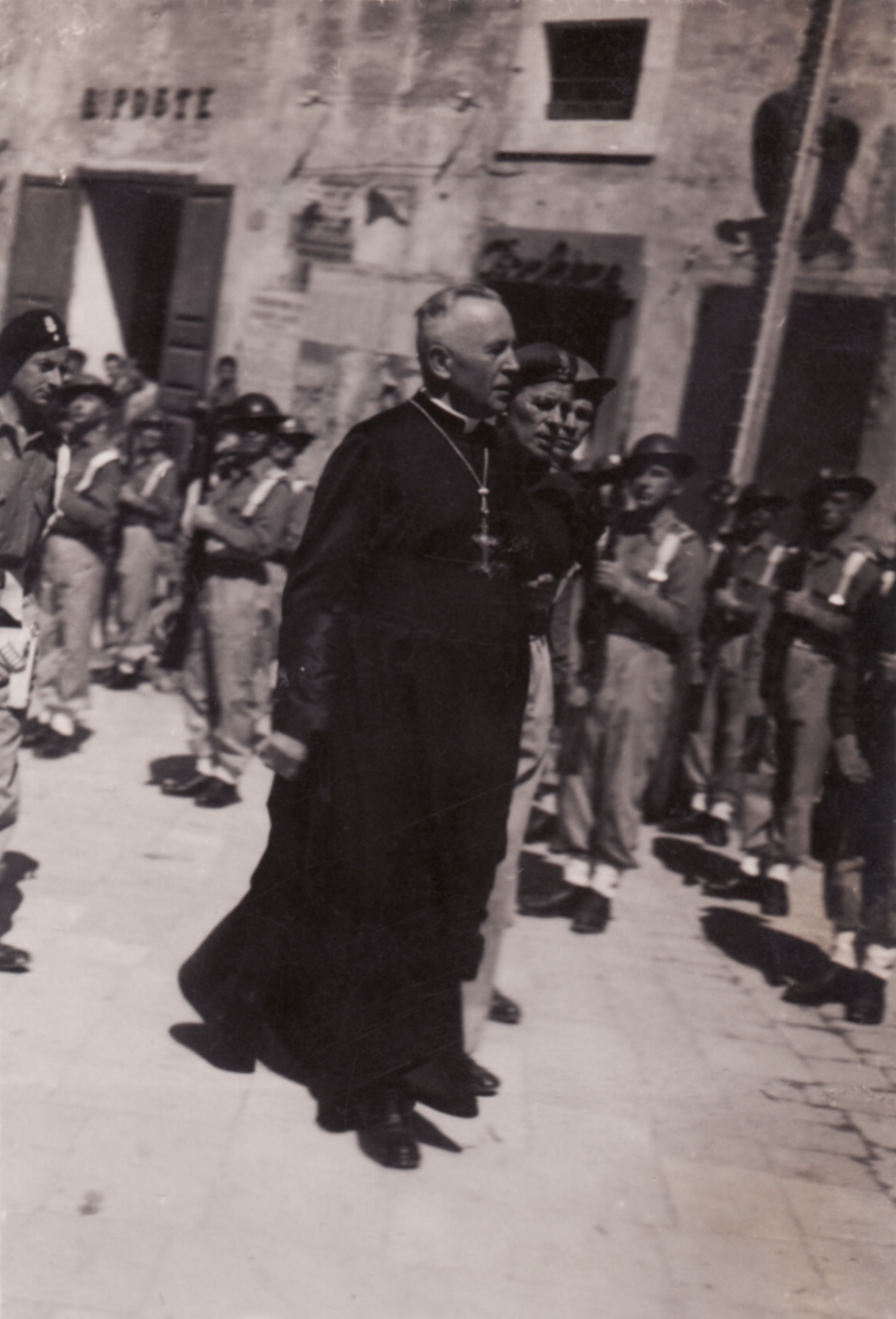 Polish II Corps: Bishop Józef Gawlina during visit to Casarano, Italy.